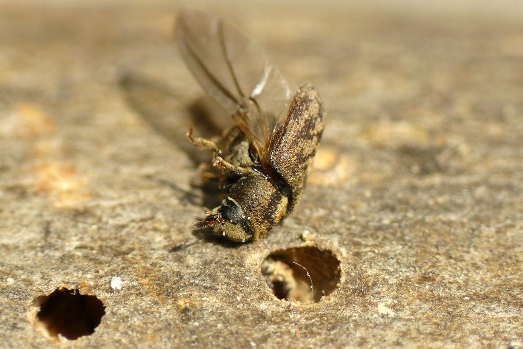 Hylesinus varius